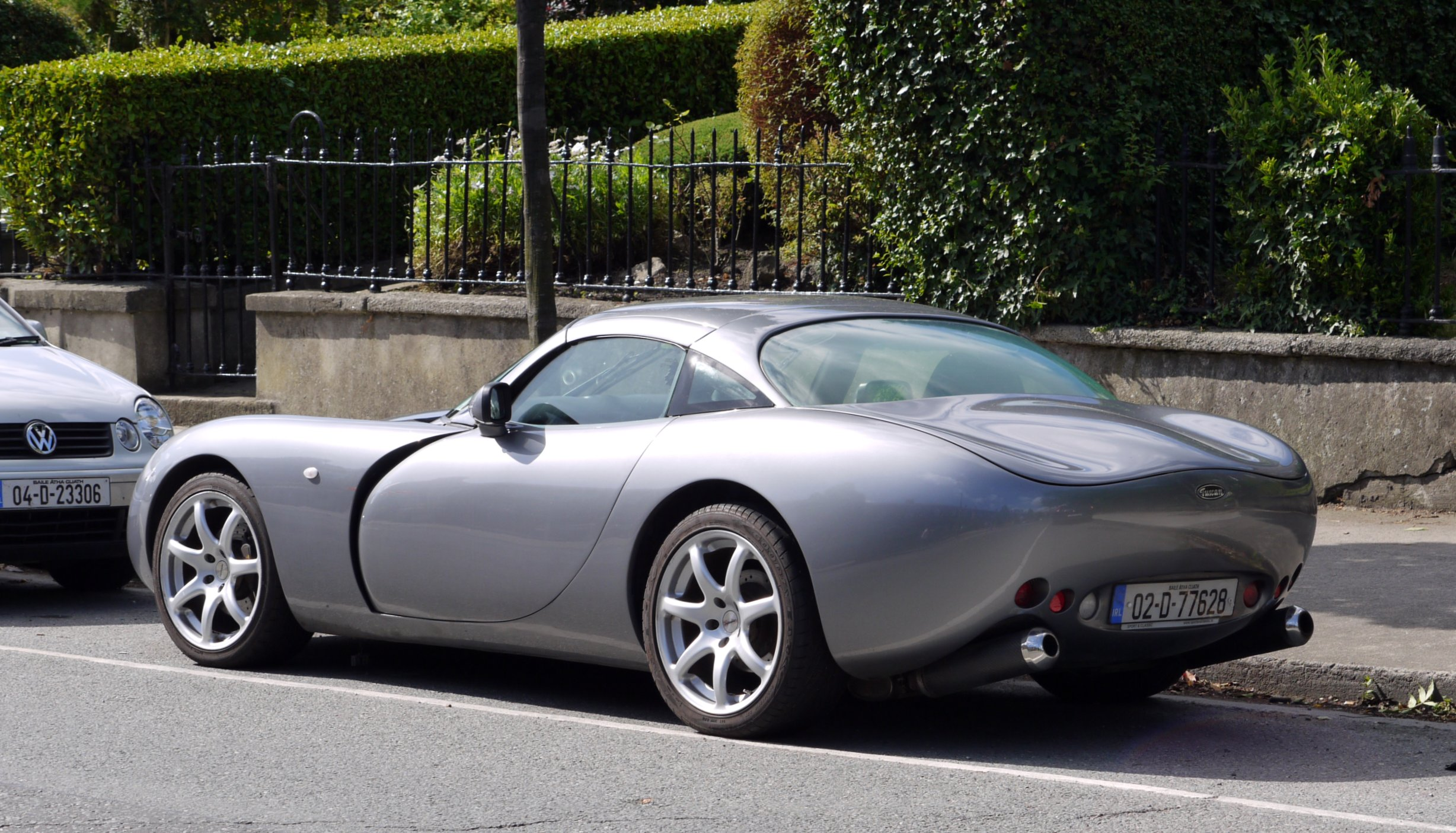 2002 TVR Tuscan Speed-6.